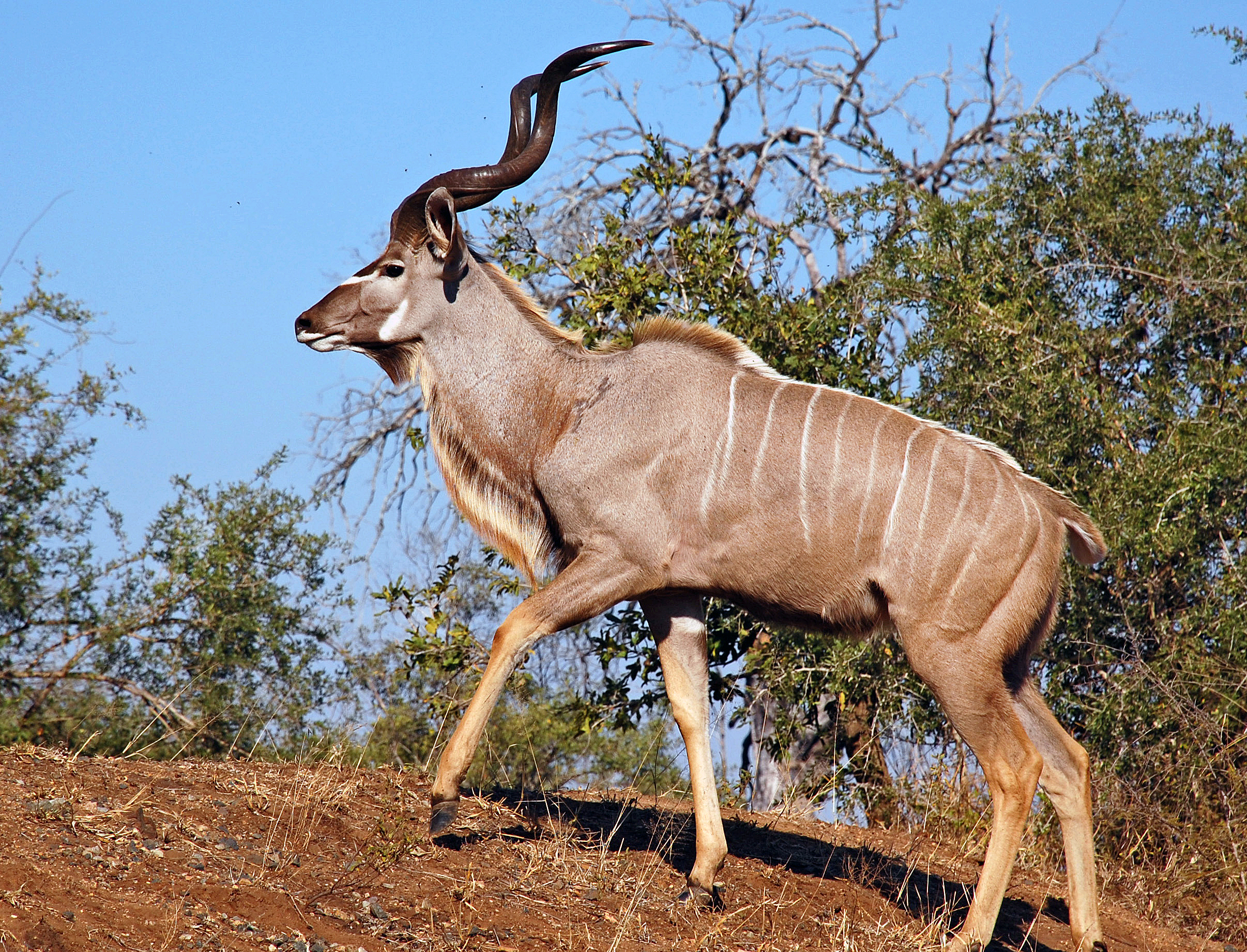 Male Greater Kudu, Kruger National Park, South Africa